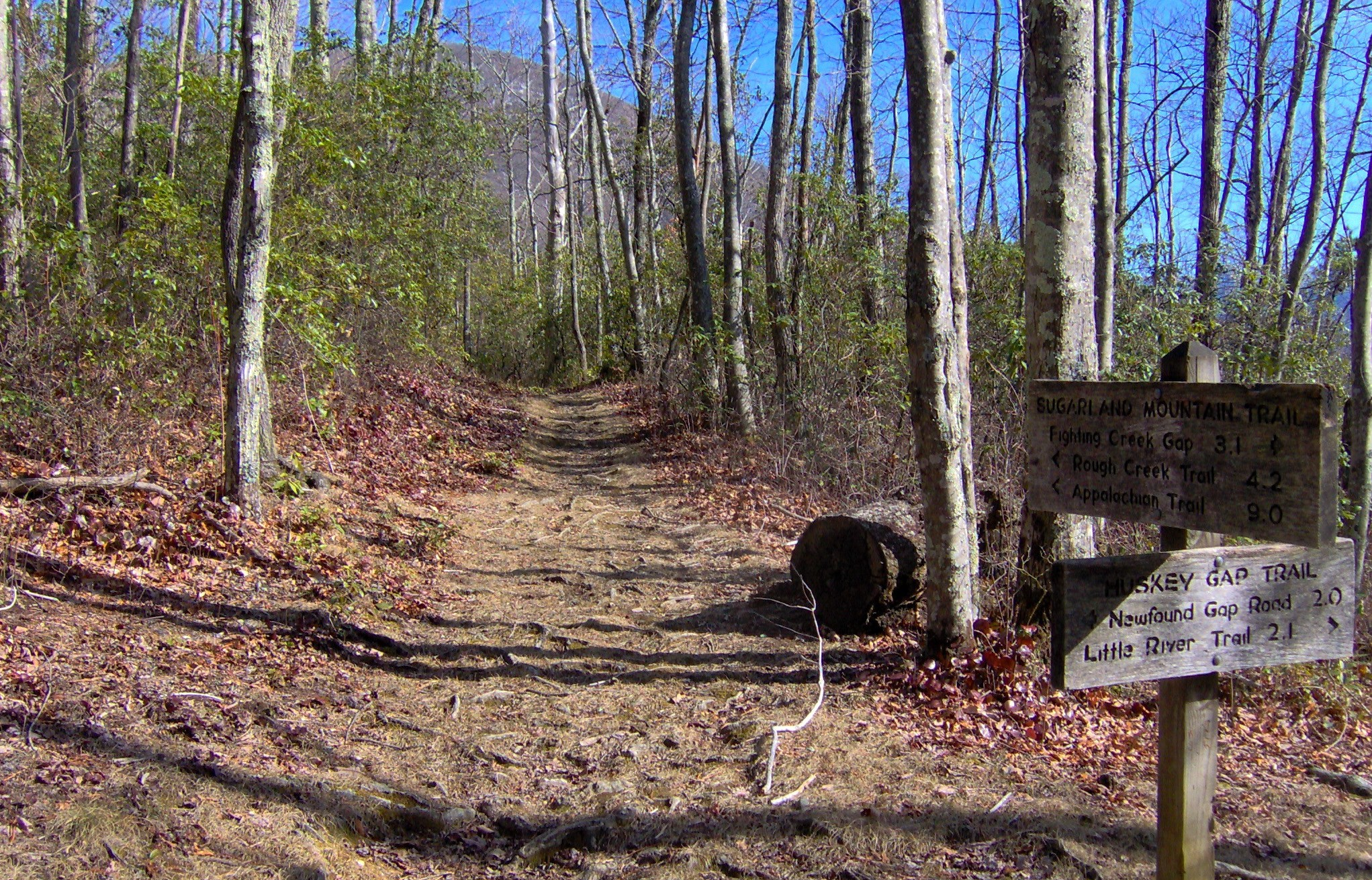 The Sugarland Mountain Trail at Huskey Gap, in the Great Smoky Mountains of the southeastern United States. The mountain's 4833-foot northern peak is visible through the treeline.